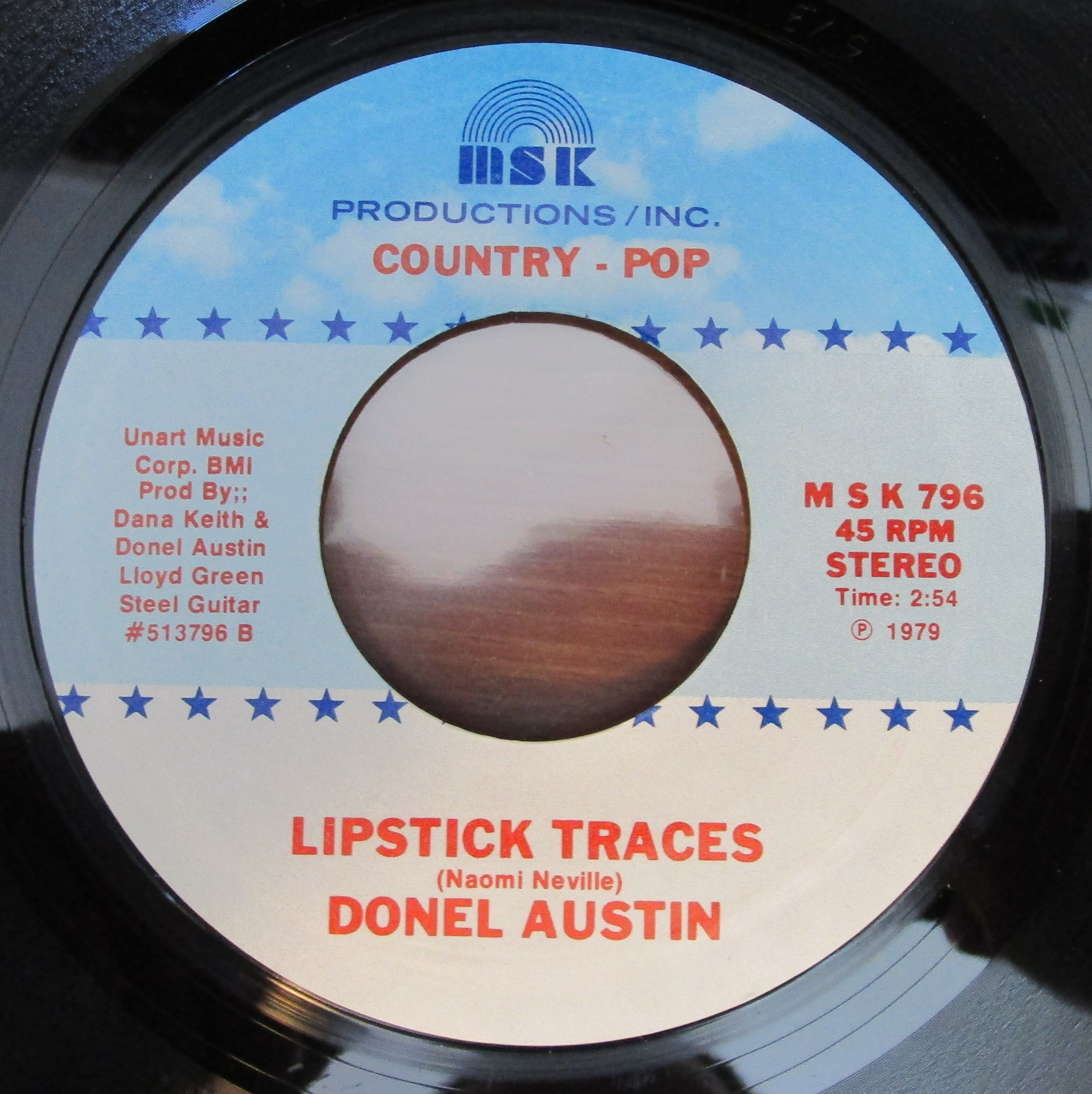 A Country version of the song Lipstick Traces (on A cigarette) on the MSK Productions label